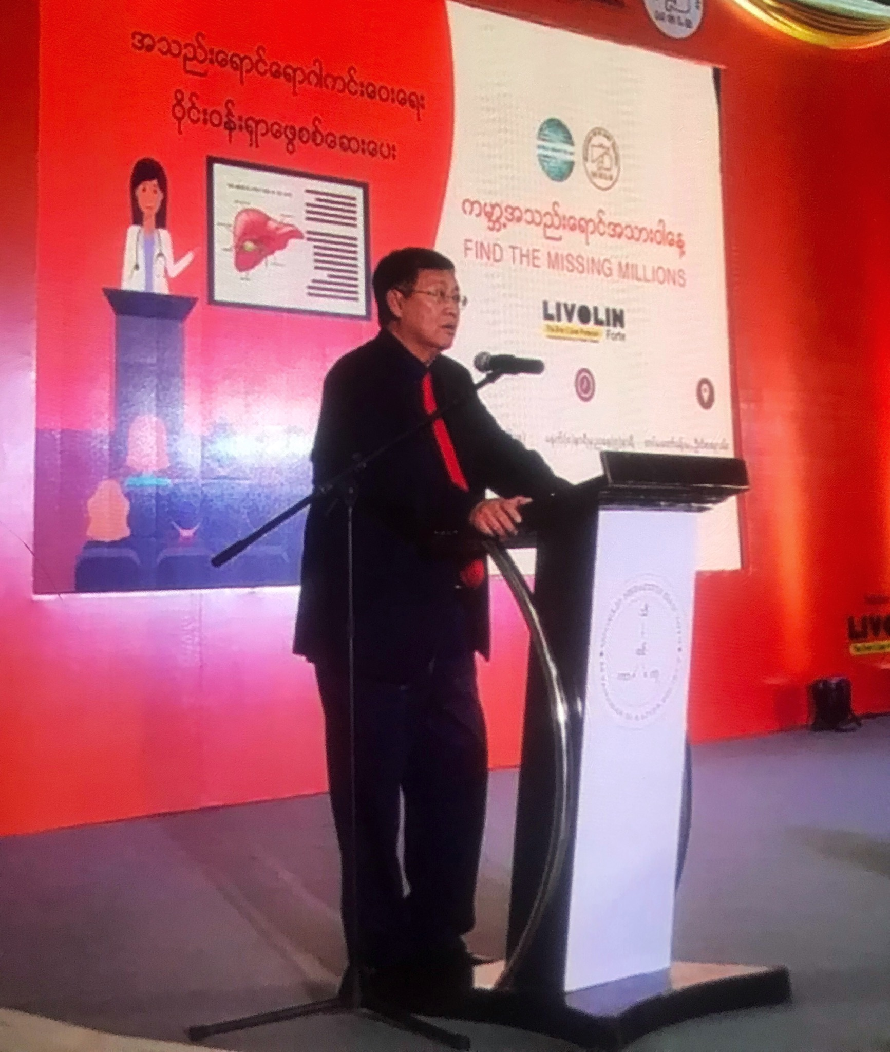 Famous liver disease specialist Dr Khin Maung Win